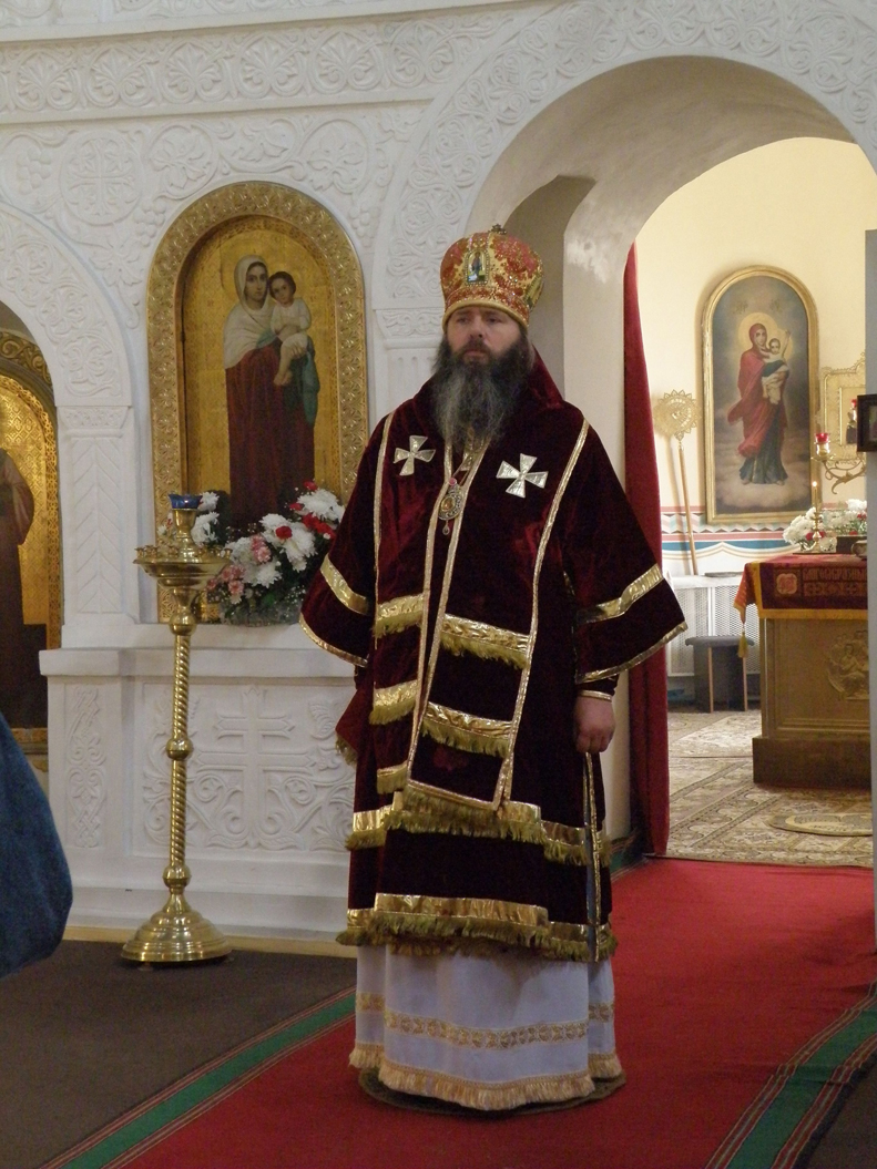 Bishop Peter (Karpusyuk)